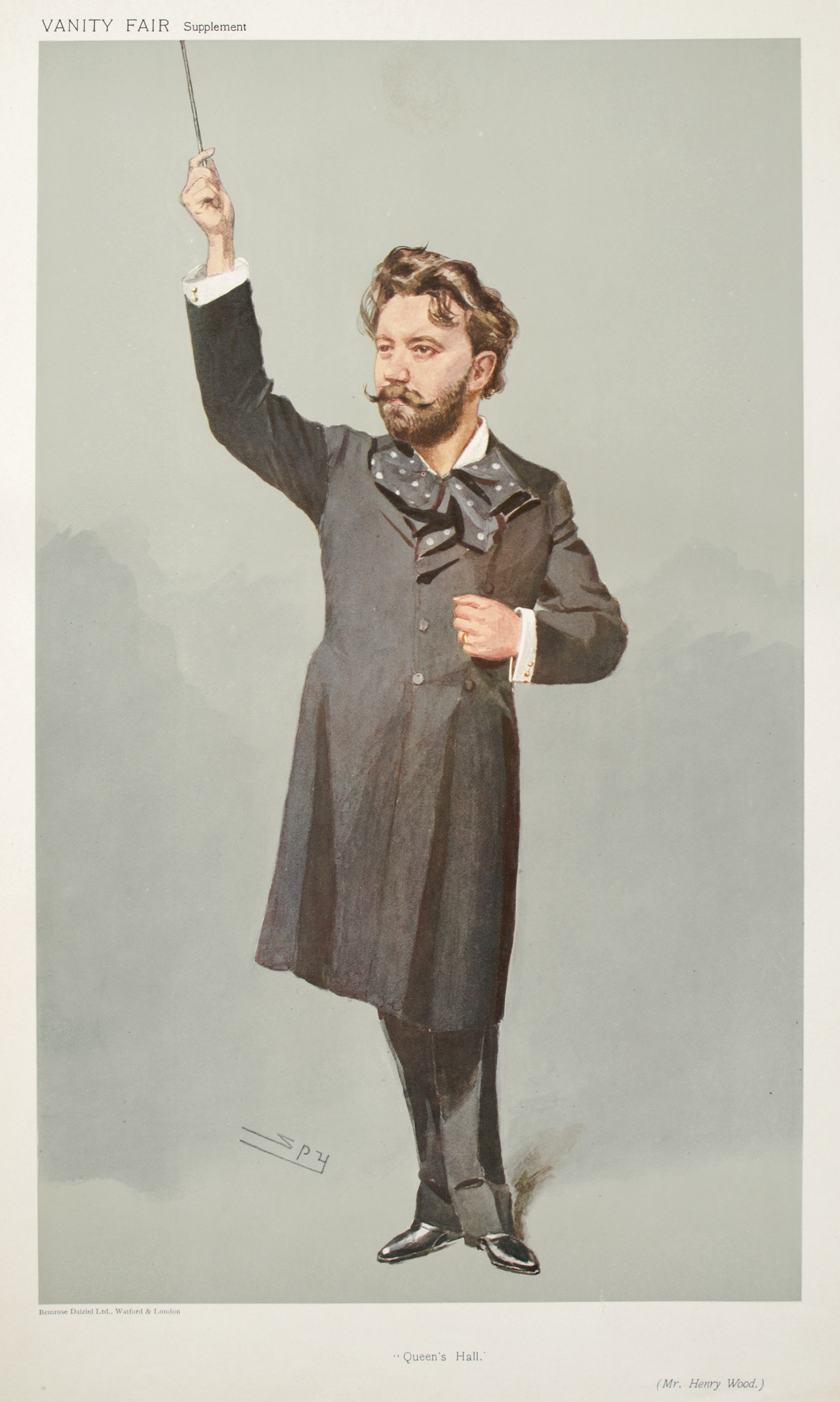 Caricature of Sir Henry Joseph Wood (1869-1944). Caption read "Queen's Hall".